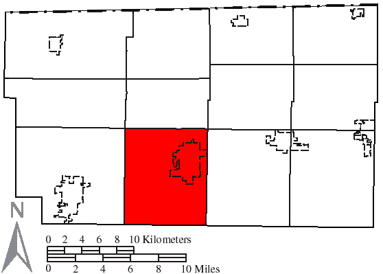 Made by the US Census and modified by myself